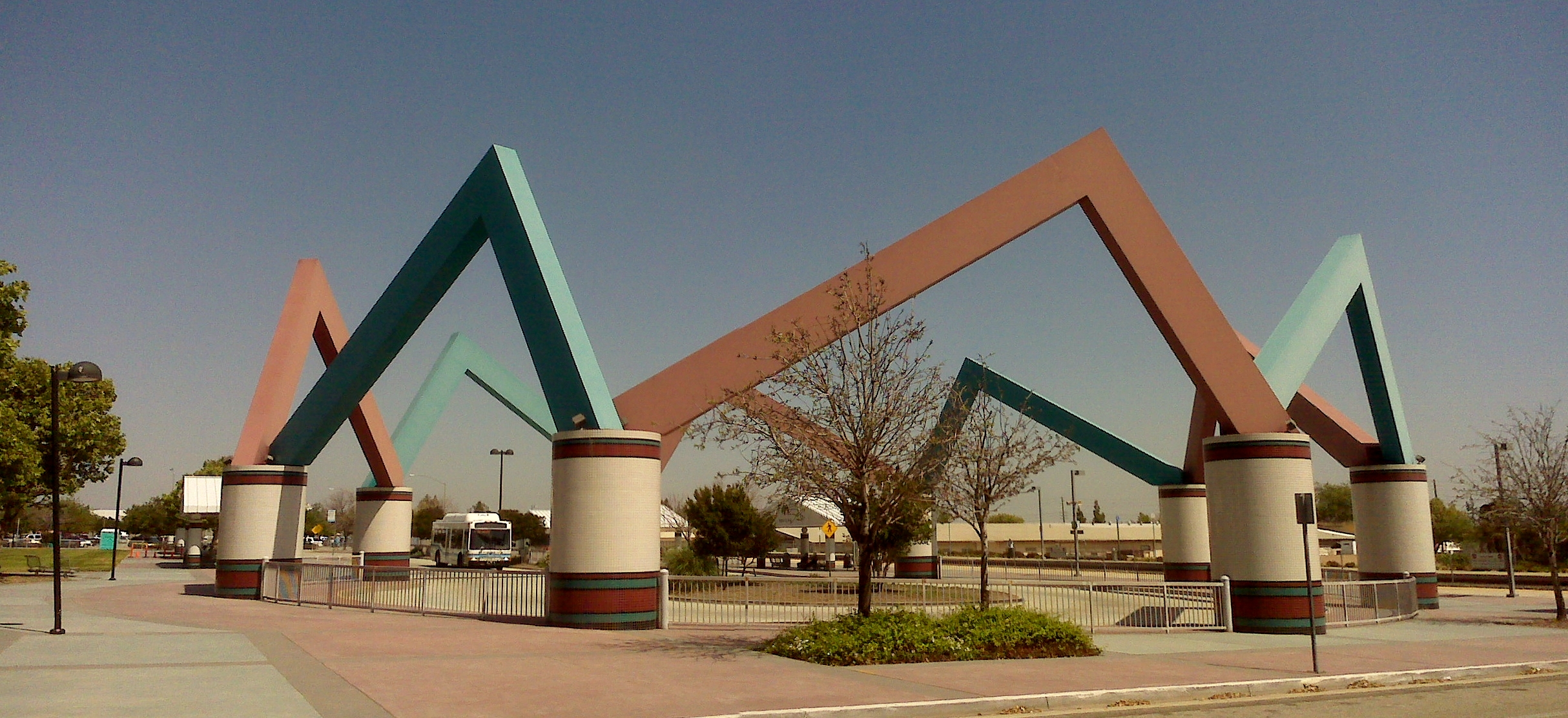 Montclair, CA